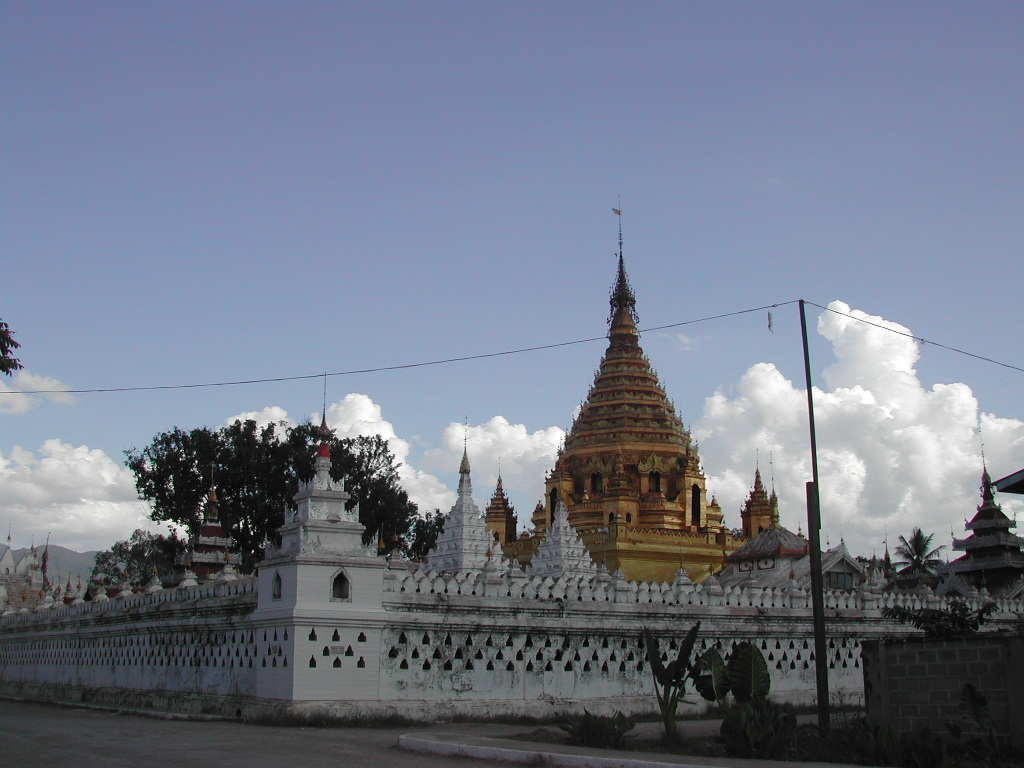 Yadana Man Aung Paya in Nyaug Shwe, Myanmar.